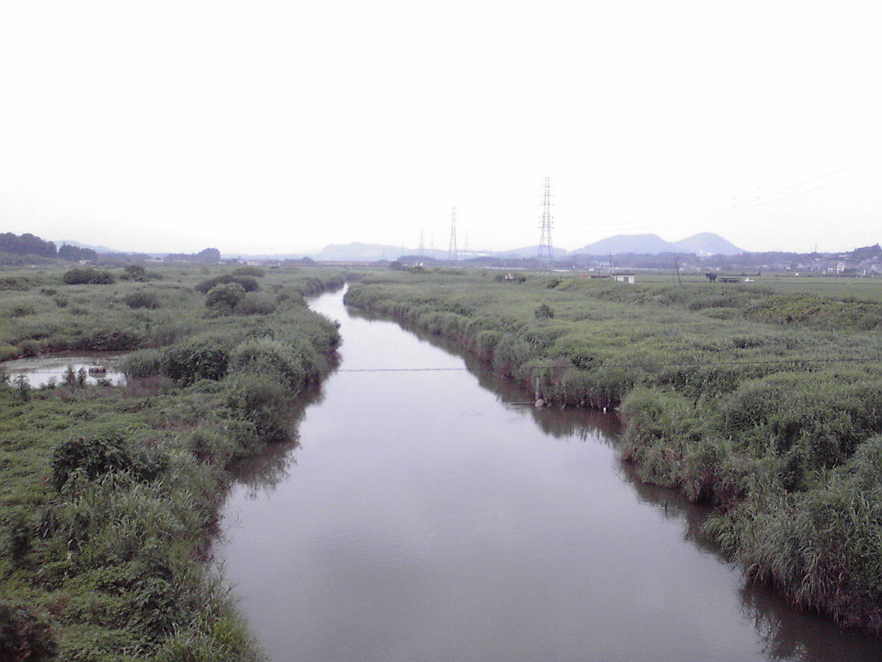 This is the river Koise seen from Koise bridge (Route 6) in Kasumigaura & Ishioka city, Ibaraki prefecture, Japan.